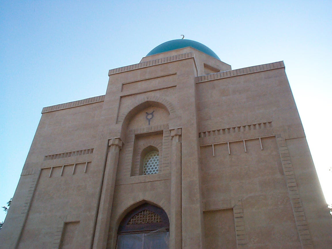 This is a photo that I, Michael Hancock, Michael Hancock 19:26, 13 February 2007 (UTC) took of the newest mausoleum in Sayram, honoring Botbay Ota. It was finished in 2005.